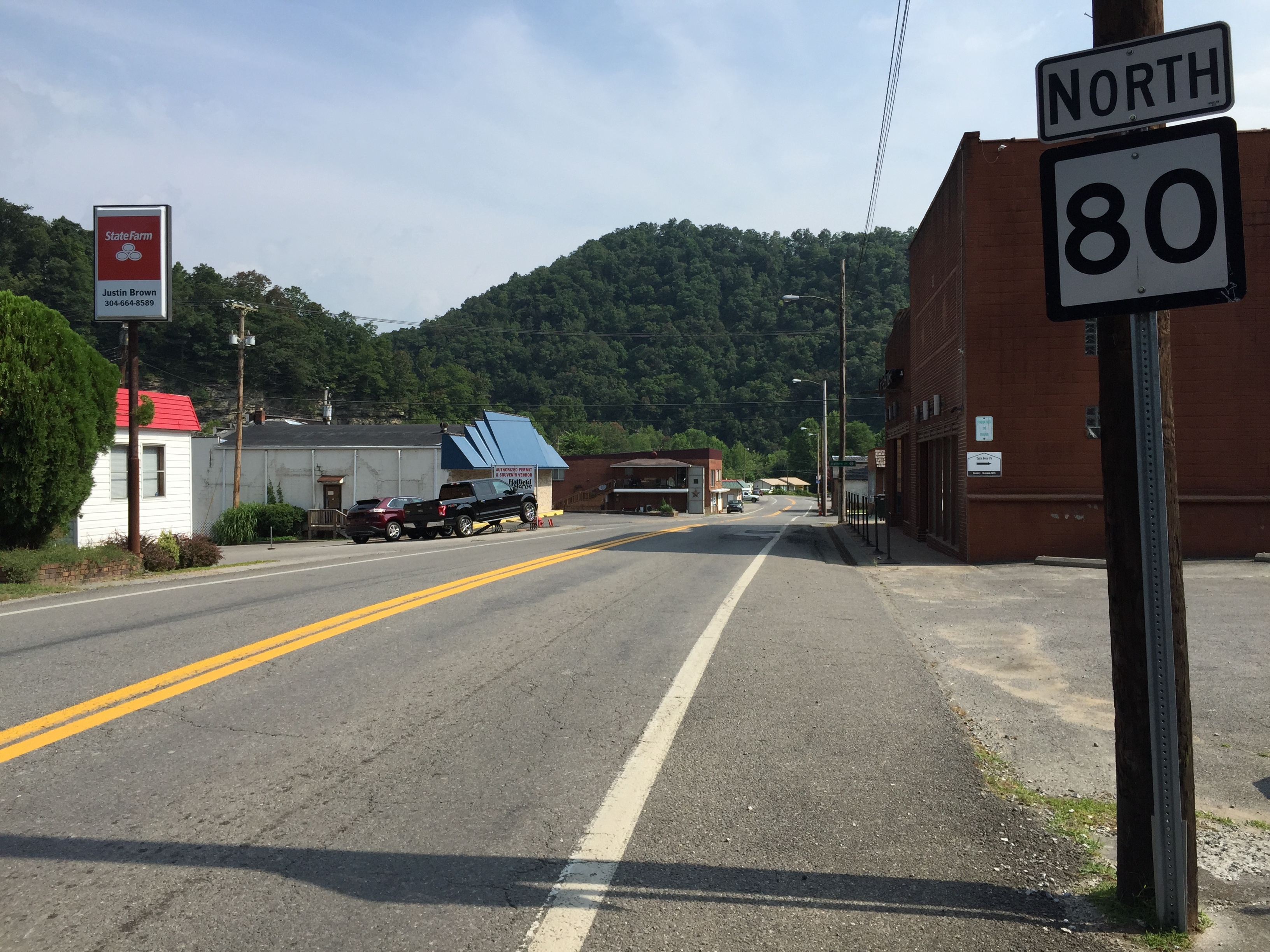 View north along West Virginia State Route 80 (Third Avenue) at U.S. Route 52 (Central Avenue) in Gilbert, Mingo County, West Virginia